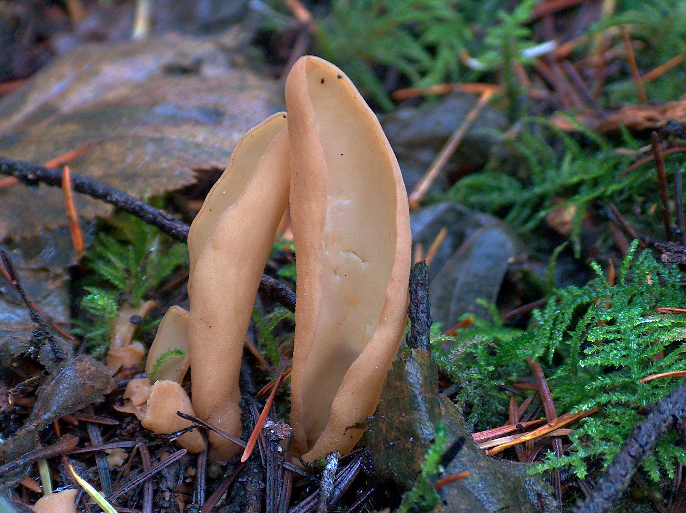 Fruit bodies of the fungus Otidea sp. Specimens photographed in Lebanon, Oregon, USA.